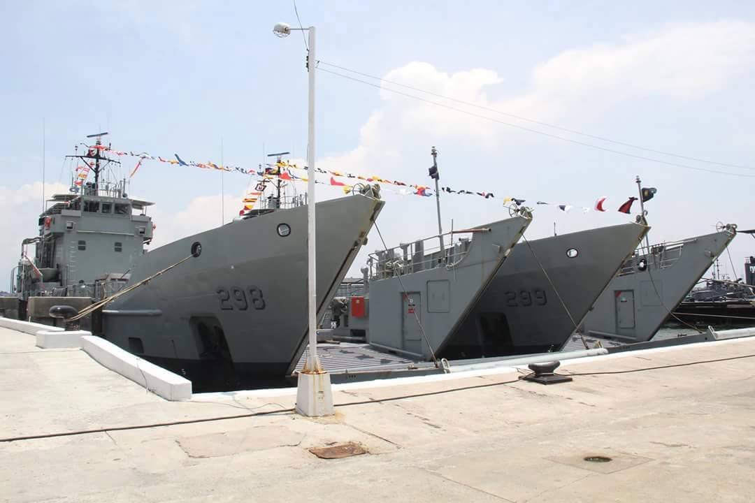 BRP Ivatan and BRP Batak side by side in Cavite Naval Base on August 7,2015.